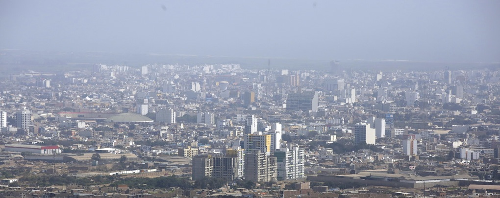 Trujillo skyline